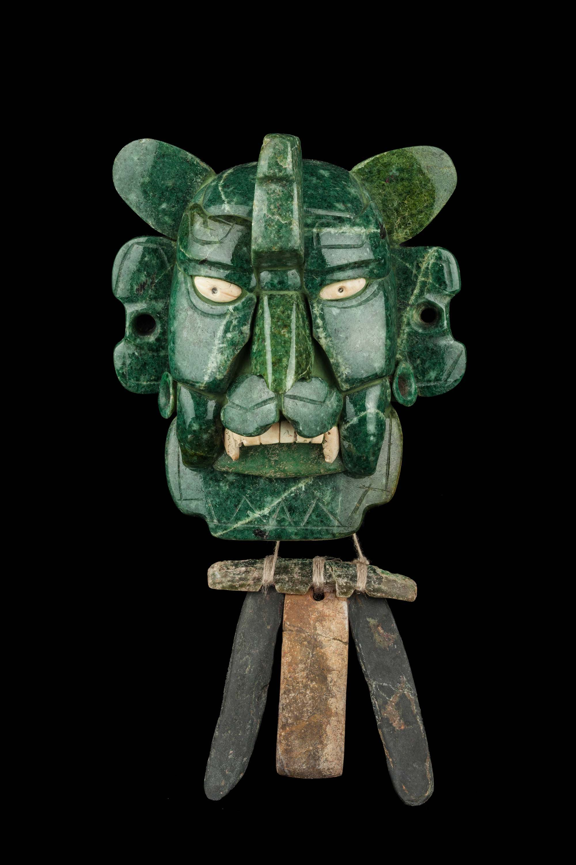 Zapotec vampire bat mosaic mask made of 25 pieces of jade, with yellow eyes made of shell